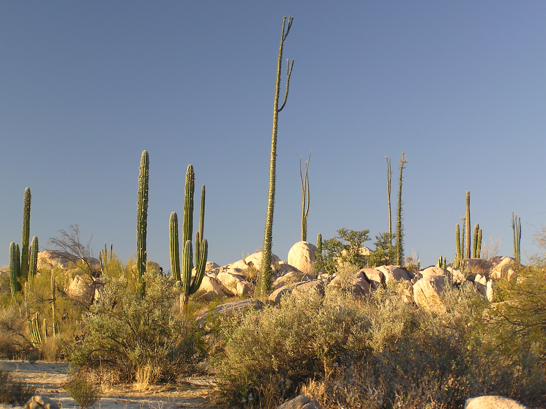 Beautiful light and rocks and cactus in the Catavina desert section of Baja